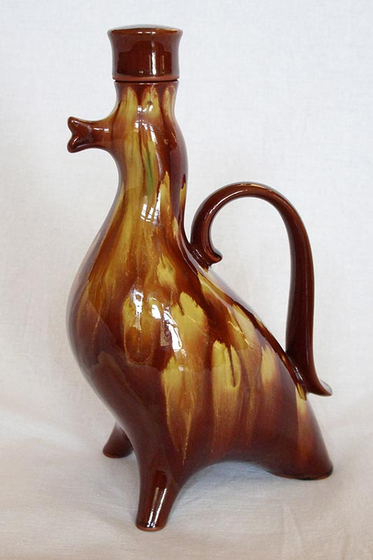 Majolica of the soviet sculptor Bronislav Bystrushkin (1926-1977). Lomonosov's Porcelain Factory, Leningrad, USSR